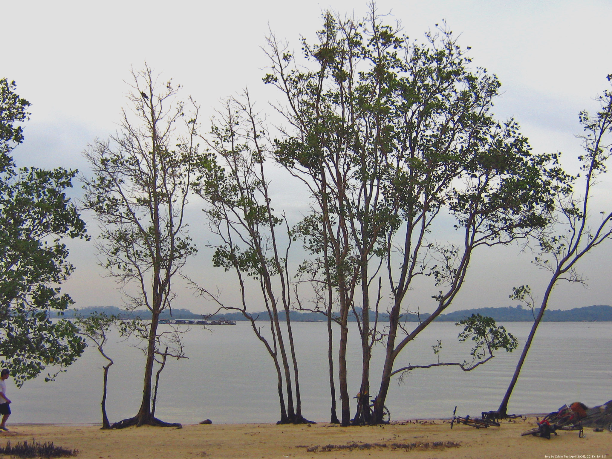 A row of Mangrove Trees witness the setting sun. Pasir Ris Park, Republic of Singapore, looking towards Pulau Ubin. Img by Calvin Teo, April 2006